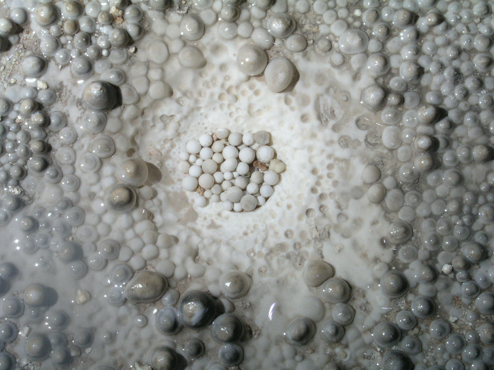 This image was taken in The Rookery portion of Carlsbad Caverns in Lower Cave in May of 2006. It shows a typical nest of cave pearls. Category:Speleothems